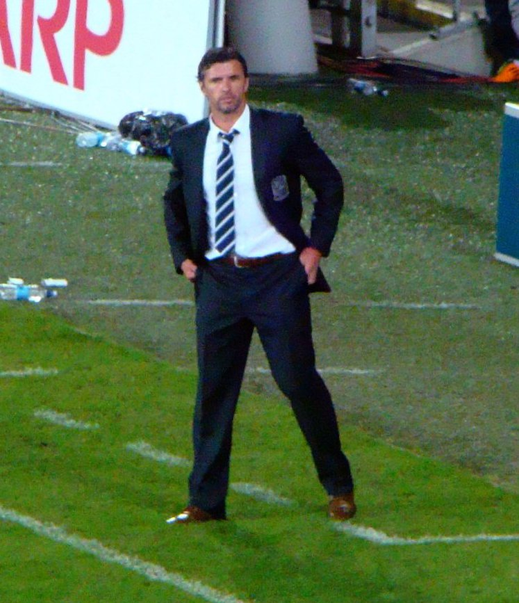 02/09/11 Wales V Montenegro, Euro 2012 qualifying, Cardiff City Stadium, Cardiff, Wales